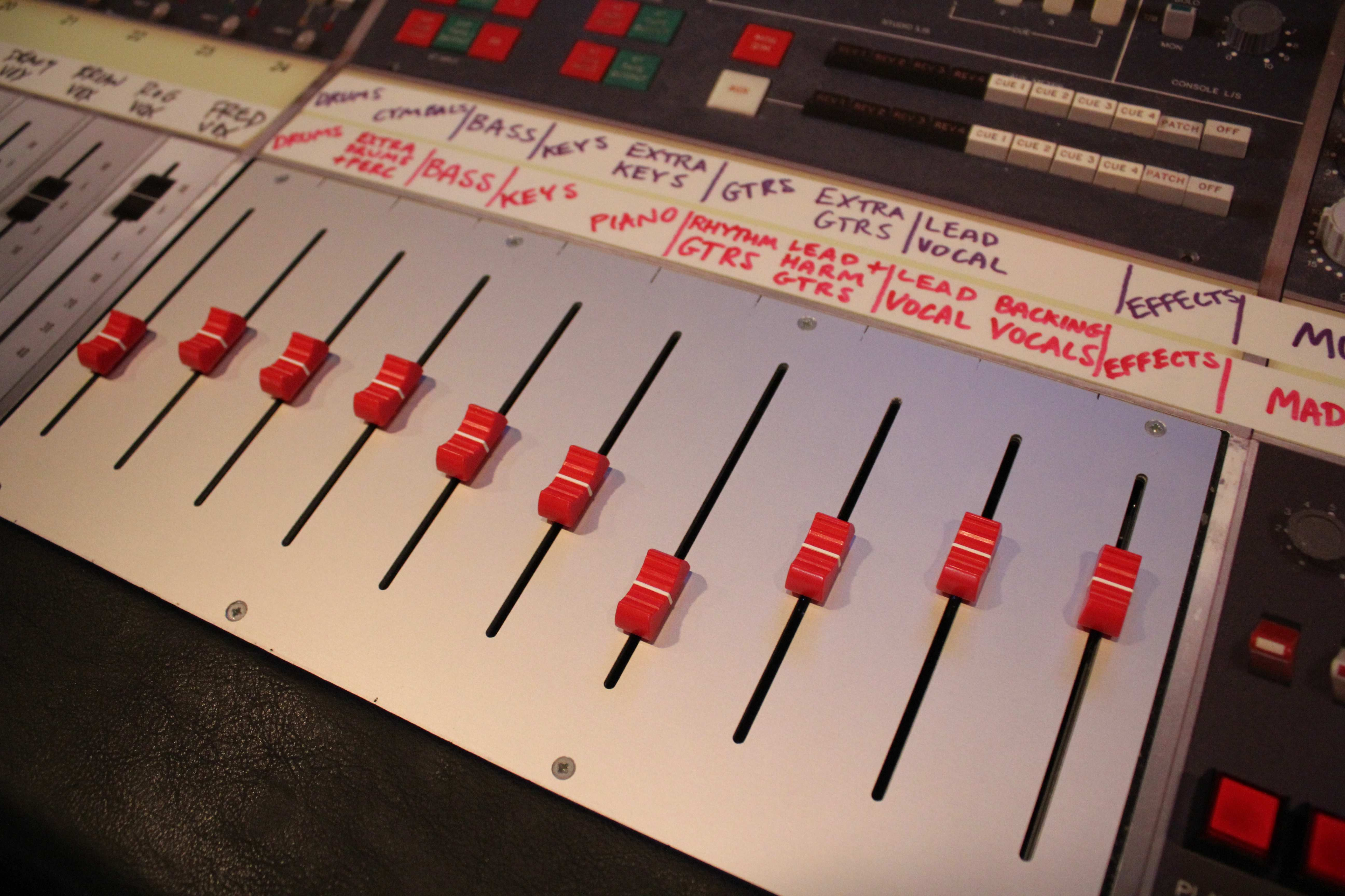 Montreux Queen Studio Experience Mercury Phoenix Trust